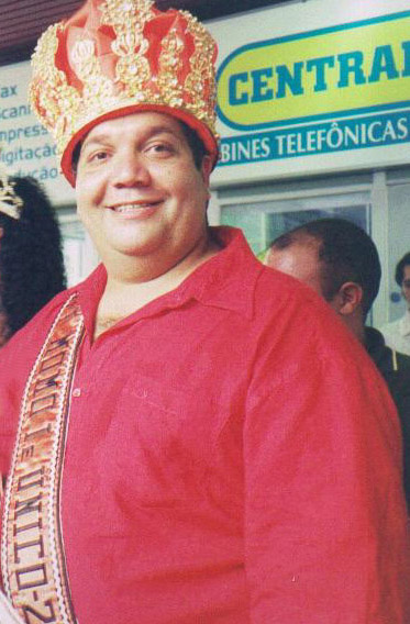 Rei Momo of Rio de Janeiro in Carnival of 2004